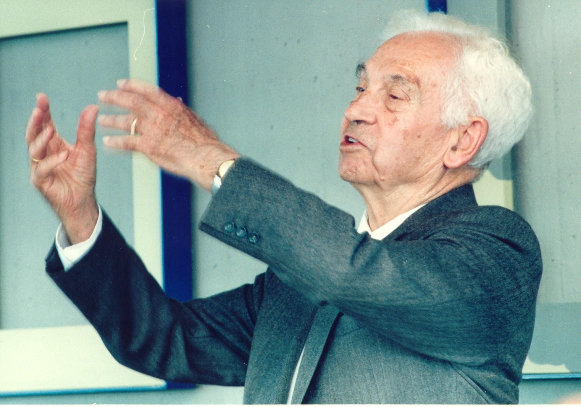 Ernst Mayr in 1994, after receiving an honorary degree at the University of Konstanz.